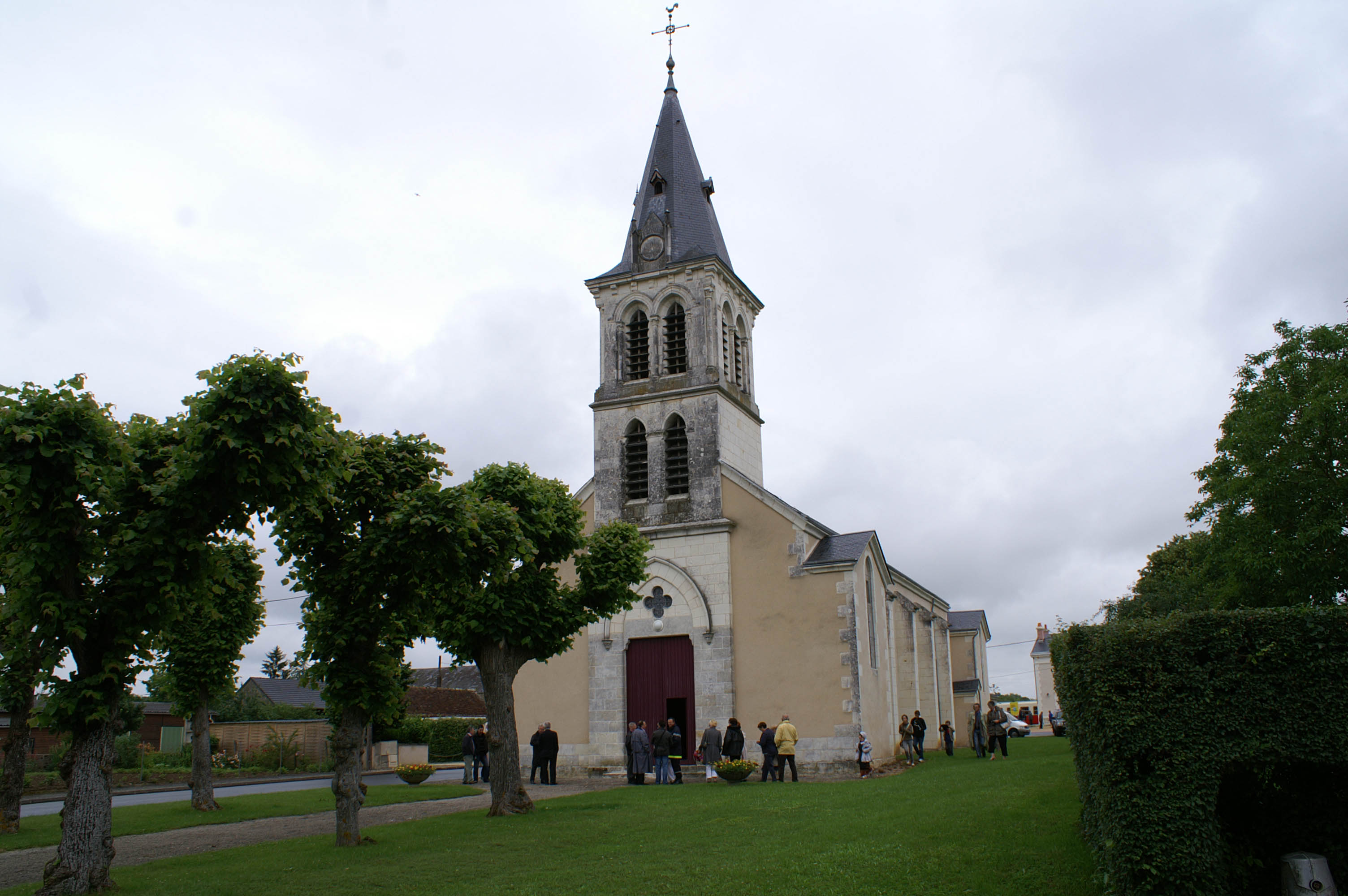 Churche in Argy in the french municipality and the departement Indre, region Centre.